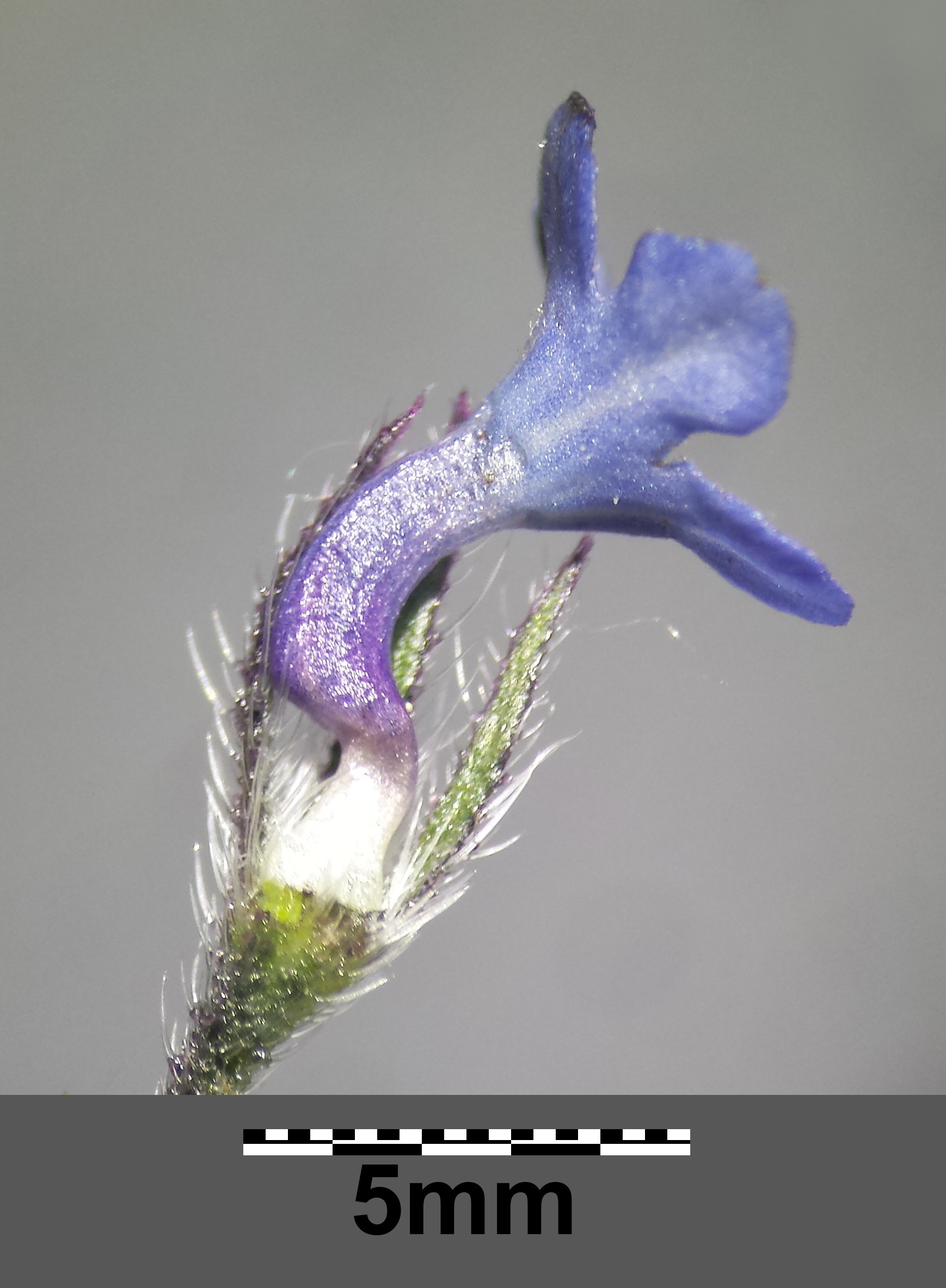 Flower Taxonym: Anchusa arvensis ss Fischer et al. EfÖLS 2008 ISBN 978-3-85474-187-9 Location: Sinawastingasse, Vienna-Floridsdorf - ca. 160 m a.s.l. Habitat: dry, ruderal slope